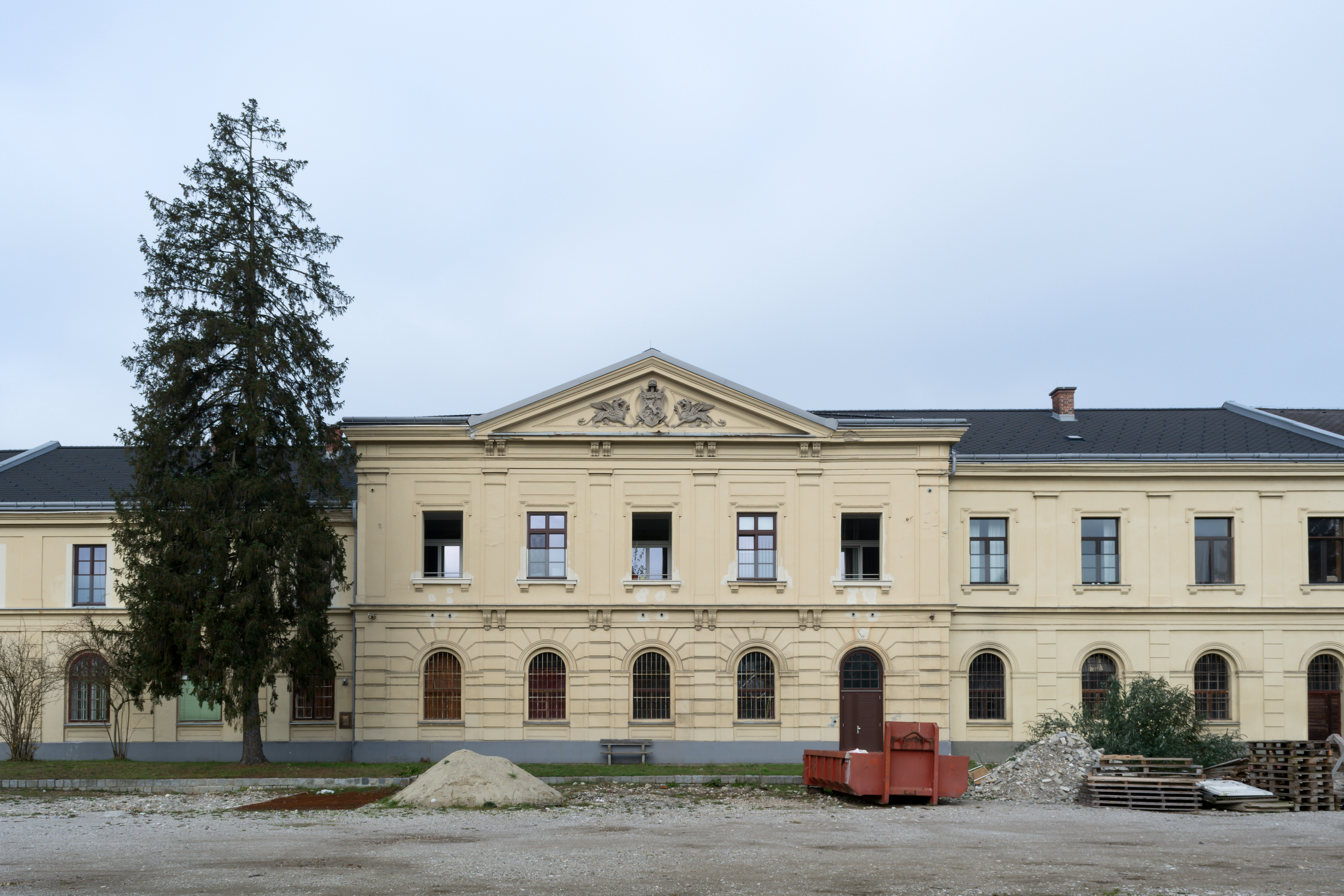 The former cavalry barracks in Wels (Austria) will be renovated and used as office building and condominium.